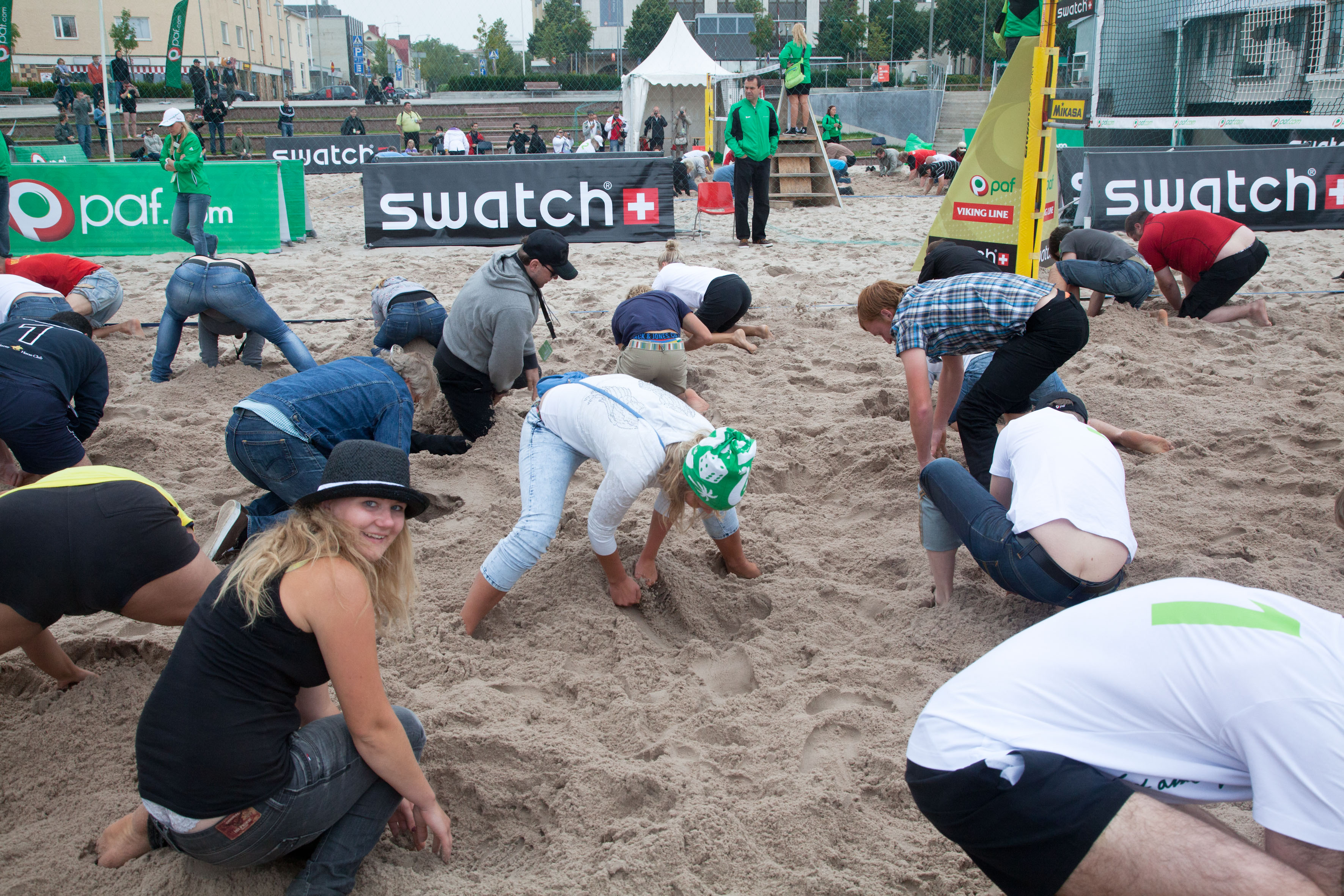 The Paf Treausure Hunt during the Paf Open in Mariehamn on September 1 2012, Åland, Finland. Two lucky winners, one from Estonia and one from Spain, found the €1,000 treasure. Photograph: Rob Watkins/ This picture is free to use as long as it it credited: Rob Watkins/